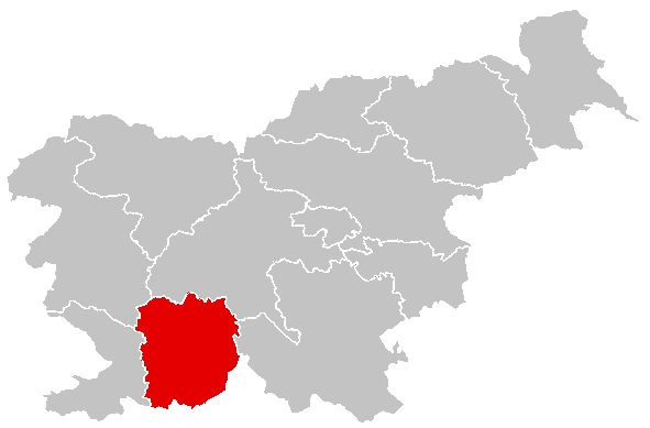 Map showing the Notranjsko-kraška statistical region of Slovenia. Modified from File:Slovenian-regions-obalnokraska.png